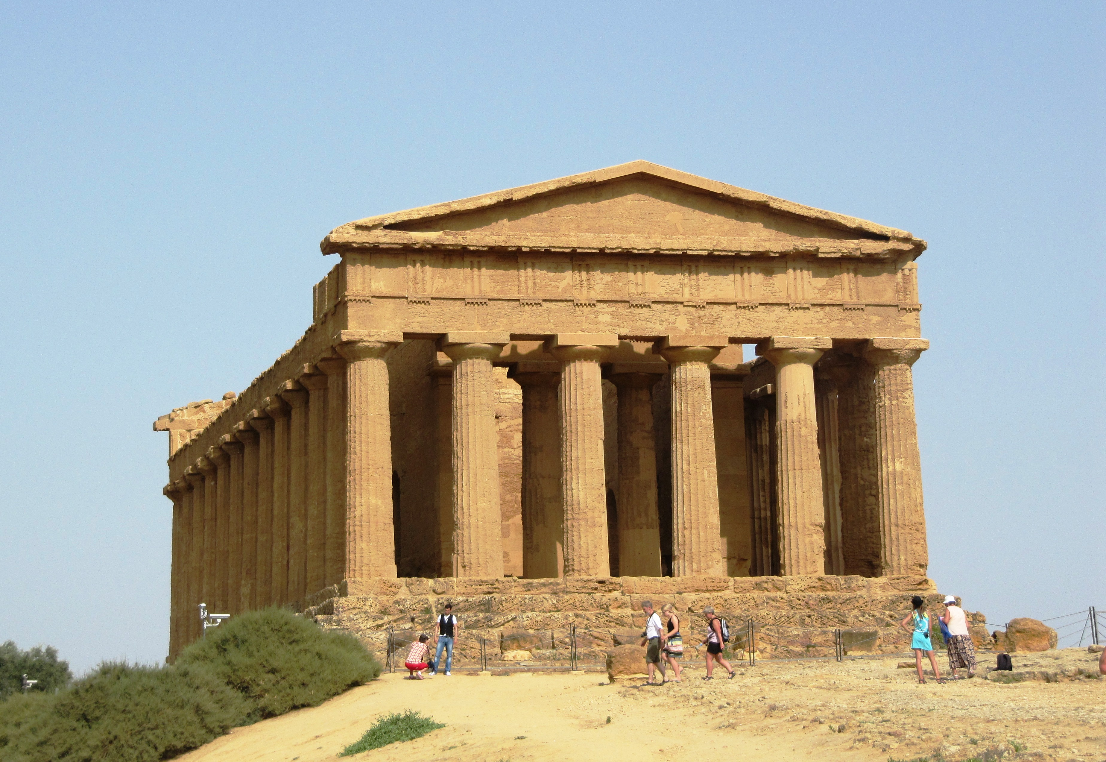 Agrigento, Sicily, Italy. Temple of.Concordia.